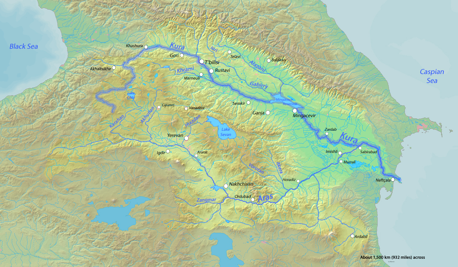 Map of the Kura River, whose watershed drains much of the Caucasus region in Azerbaijan, Georgia, Armenia, Turkey and Iran into the Caspian Sea